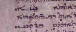 Khaburis Codex, fragment of 1 Timothy 3:16-4:14